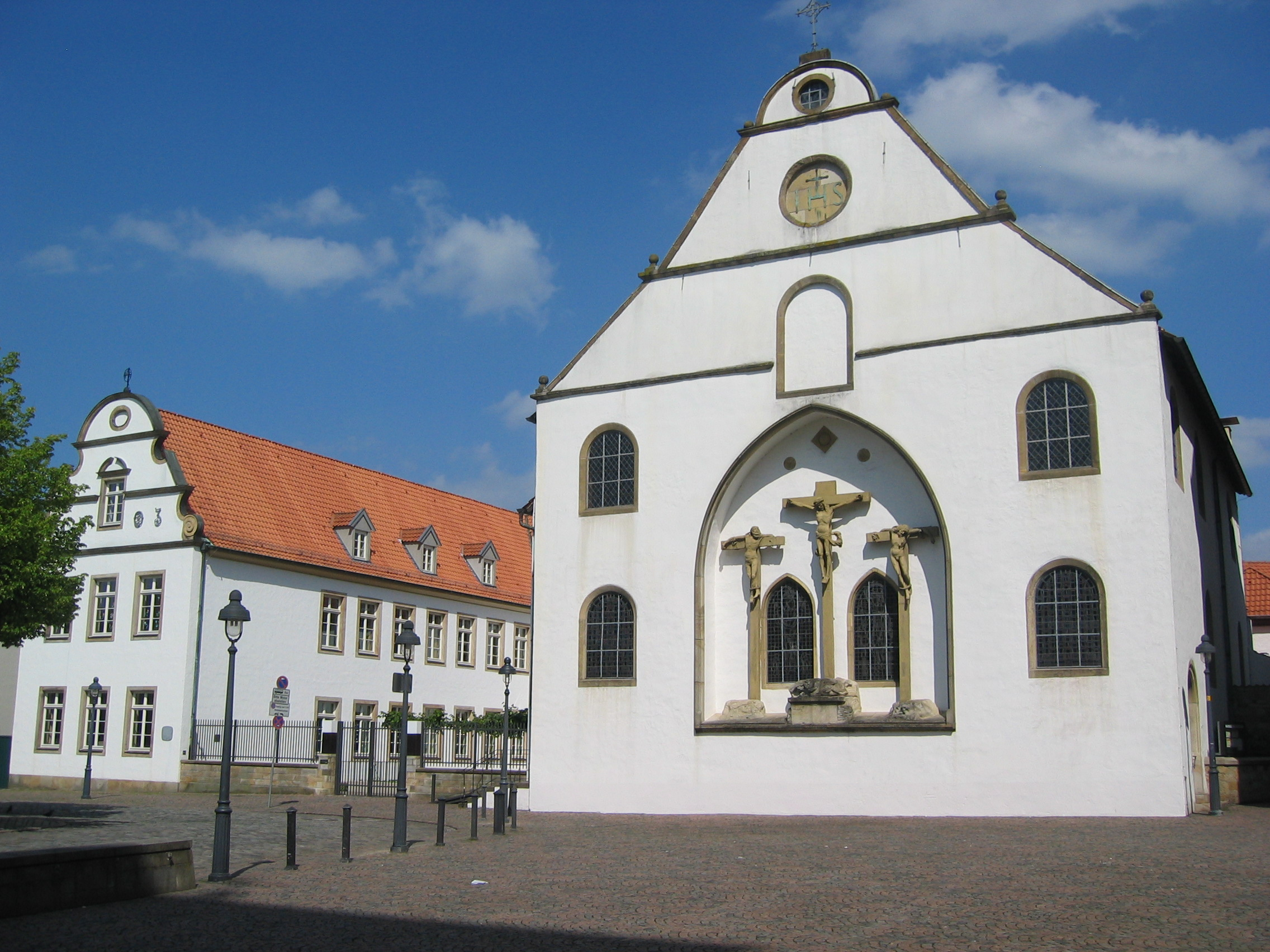 Main entrance of the "Gymnasium Carolinum" in Osnabrück, Germany